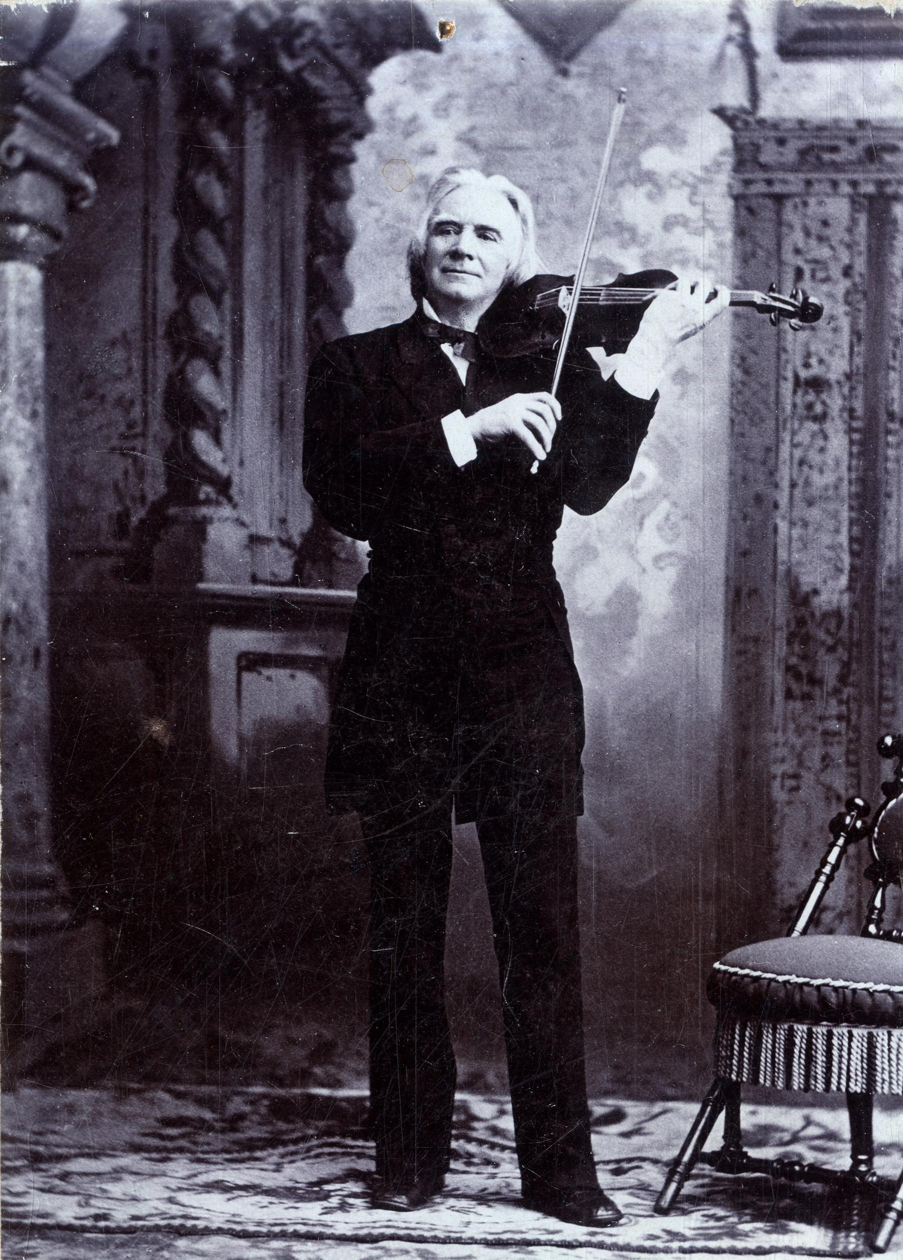 Ole Bull playing, Artist: unknown Date/place: unknown Subject: Ole Bull Medium: photographic positive Notes: handwritten on the back: "Ole Bull fra Hr Selmer Jr til Alexander Bull Bergen 8/Sep 1896" - "Ole Bull from Mr Selmer Jr to Alexander Bull Bergen 8/Sep 1896".